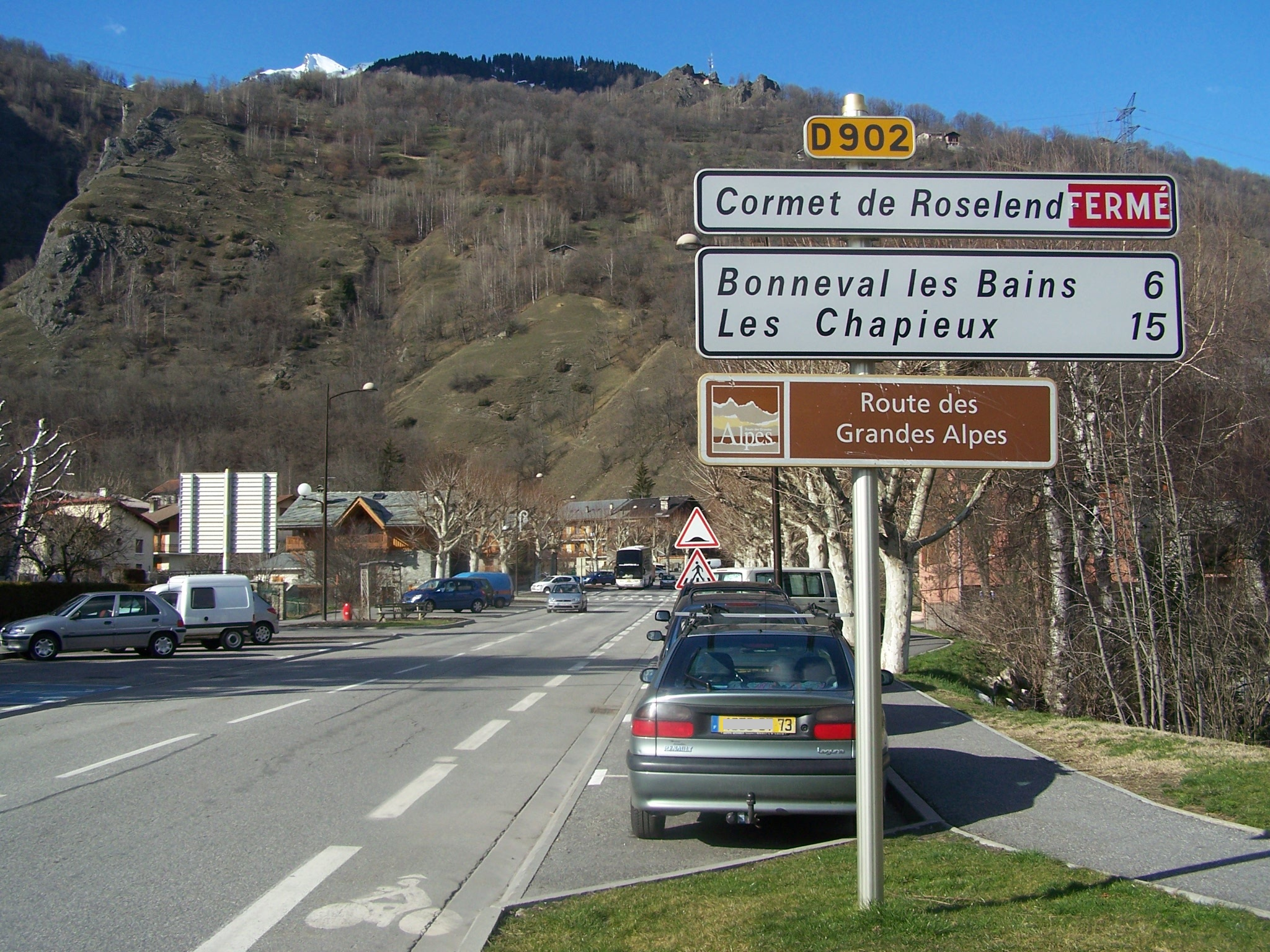 Multiples roadsigns when leaving the village of Bourg Saint-Maurice in the Savoyan French Alps.